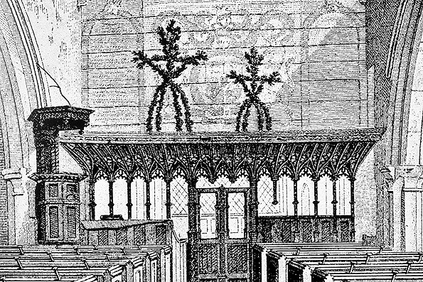 Illustration of the rood screen at St Mary's church, Charlton-on-Otmoor, Oxfordshire, with two foliage-covered garlands in place of figures in the rood loft. The figures used to be redecorated and carried in procession around the village on May Day, accompanied by morris dancers. Only one garland, more solid and cross-like, exists today; it is redecorated on May Day and September 19 (the patronal festival calculated by the Julian Calendar).